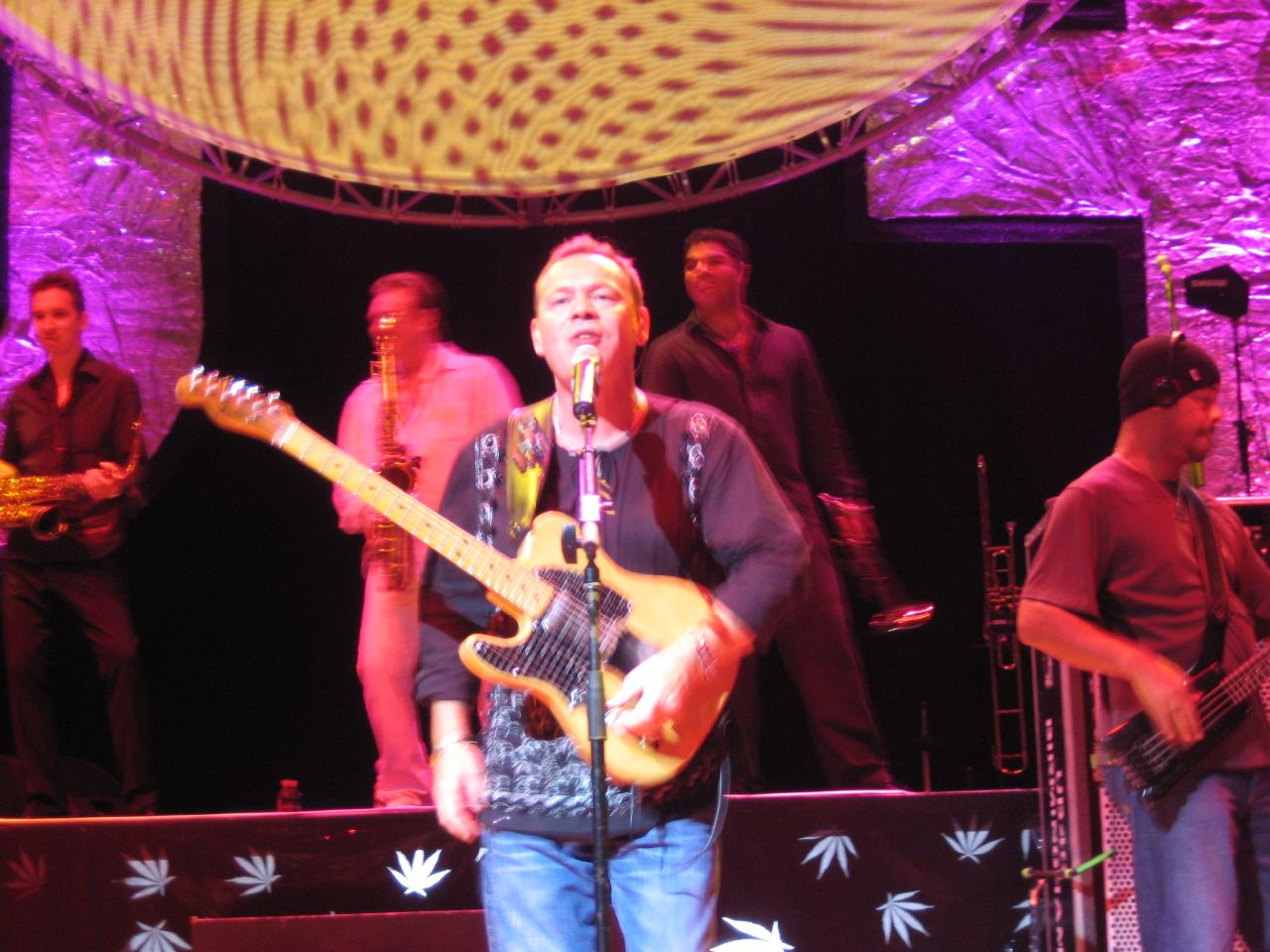 UB40 - Massey Hall - April 11 2006